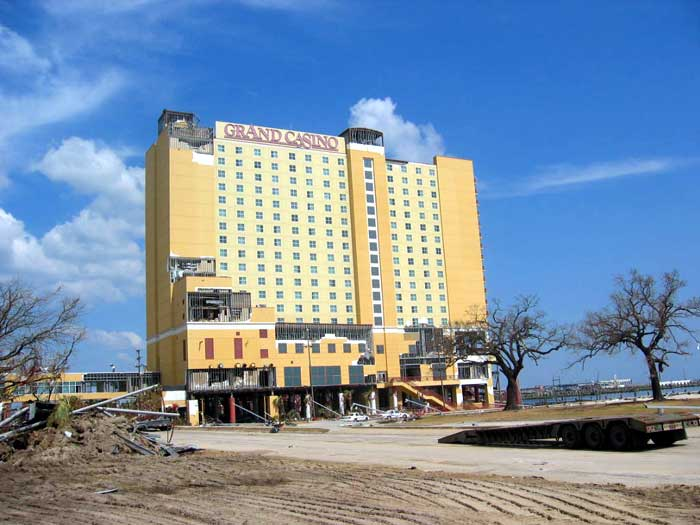 Hurricane Katrina photo of damaged Grand Casino Gulfport hotel; its large casino barge, formerly right of the hotel, floated away, leaving open water.